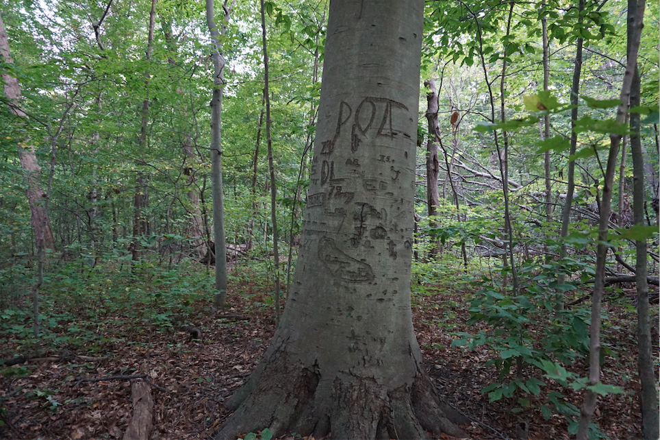 Seminary Woods Beech Tree